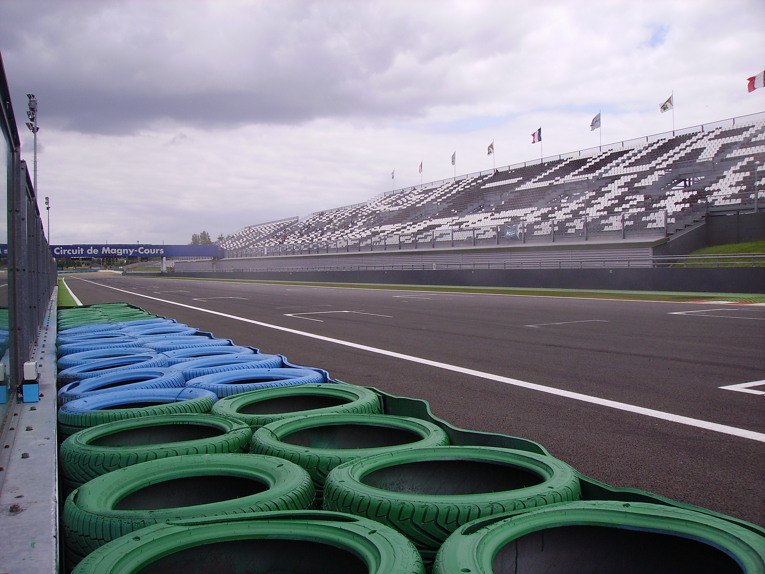 Track near the stands at the Circuit de Nevers Magny-Cours.